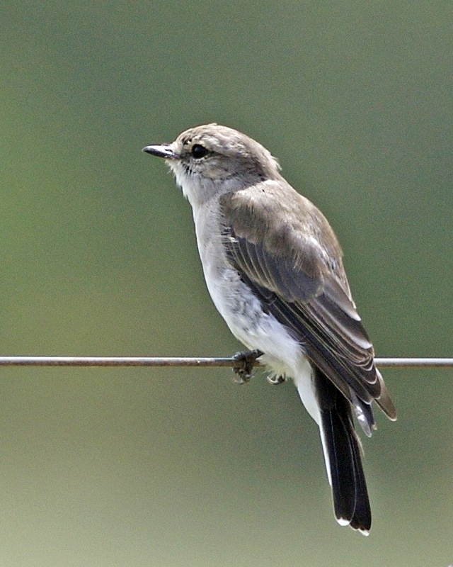 Jacky-winter (Microeca fascinans) adult \Nominate race, Microeca fascinans fascinans Capertee Valley,Blue Mountains, NSW, Australia 10th. February 2008 Habitat found in: 690V1465